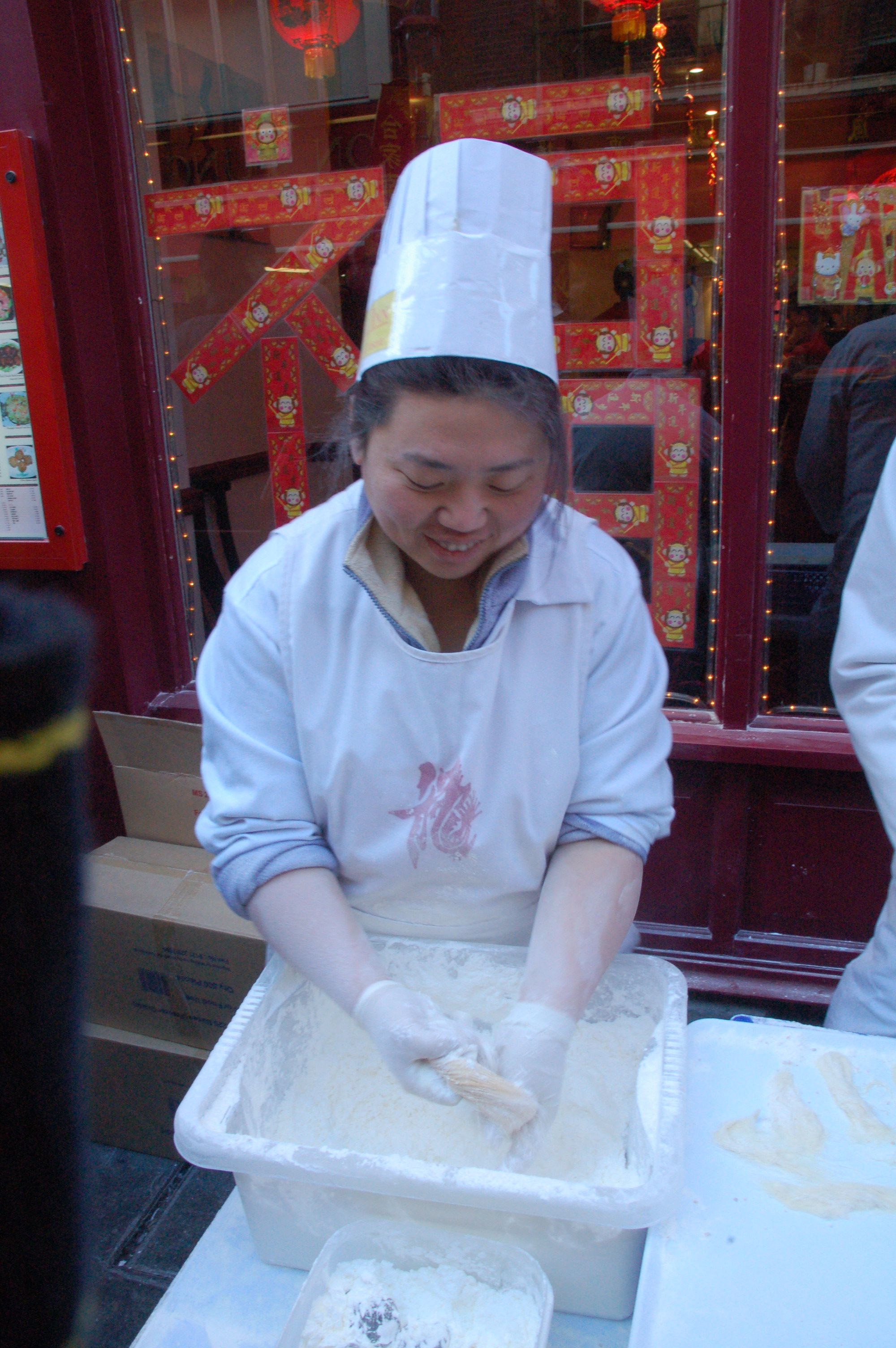 Dragon's beard candy being made by Huo Xiao Di in London's Chinatown, Chinese new year 2006.